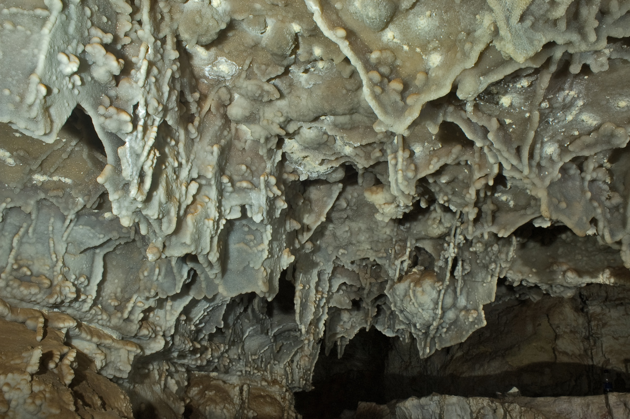 This boxwork in the lower part of Wind Cave was inundated after its formation and was coated with a layer of macrorystalline pool spar, making it thicker and more massive than that in the upper cave.